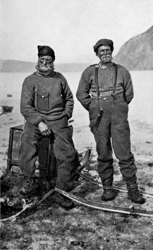 Polar Explorers Gunnar Isachsen and Sverre Hassel during the second Fram expedition 1898–1902.